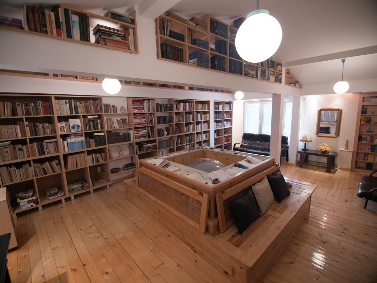 Memorial room of Peter Urban, also known as Chekhov Library for many works of author Chekhov that can be found in the room; Located in the Society for Culture, Art and International Cooperation Adligat in Belgrade, Serbia. Српски (ћирилица): Спомен соба Петера Урбана, позната и као Чеховљева библиотека због великог броја његових дела које садржи; Налази се у Удружењу за културу, уметност и међународну сарадњу Адлигат у Београду.